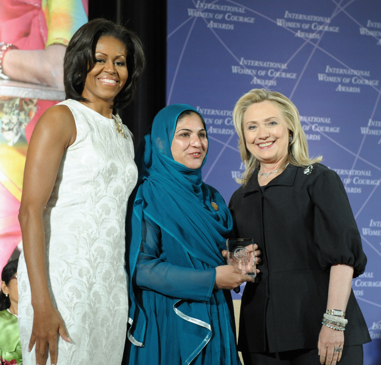 U.S. Secretary of State Hillary Rodham Clinton, right; and First Lady Michelle Obama, left; pose for a photo with 2012 International Women of Courage (IWOC) Award Winner Shad Begum of Pakistan, at the U.S. Department of State in Washington, D.C., on March 8, 2012. [State Department photo/ Public Domain]